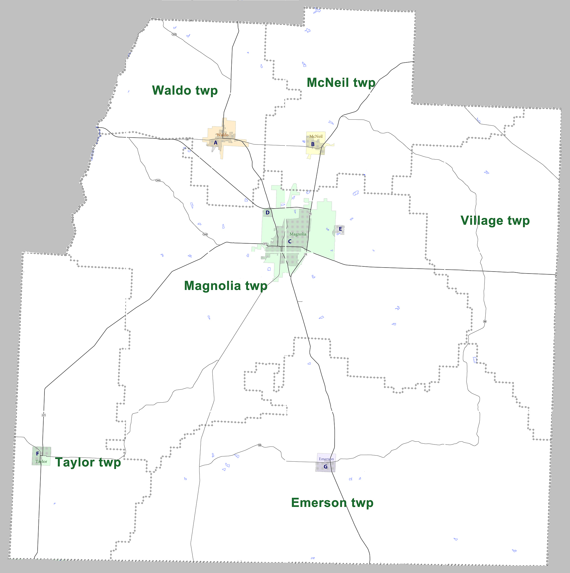 Large map showing townships in Columbia County, Arkansas. Modified from US census map (for 2010 census) for Columbia County, Arkansas